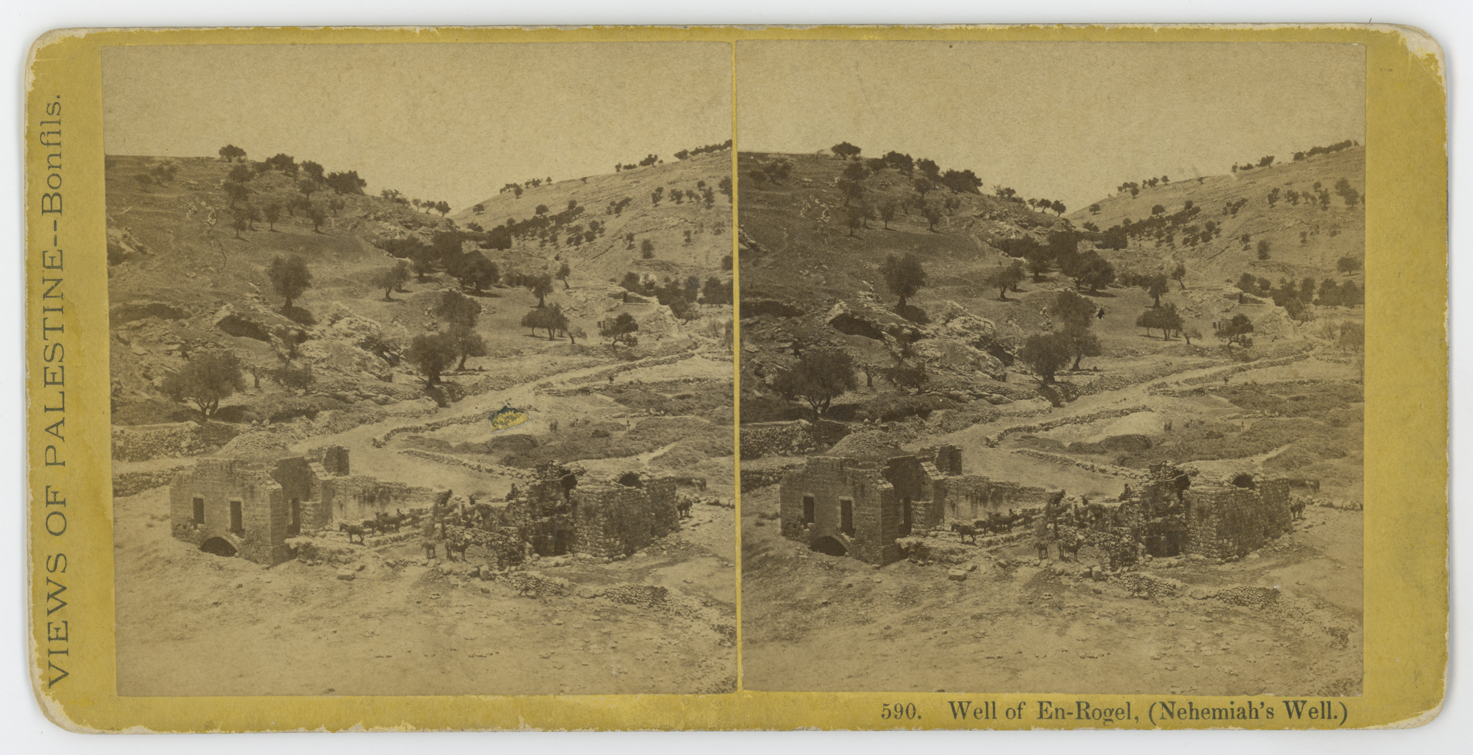 Title: Well of En-Rogel, (Nehemiah's Well) Creator: Bonfils, Felix-Adrien, 1831-1885 Date: ca. 1870 Part Of: Banks McLaurin, Jr. Stereograph Collection Place: Jerusalem, Israel Physical Description: 1 photographic print on stereo card: albumen; 9 x 18 cm File: ag2000_1296_02_d10_palestine_05r_well_opt.jpg Rights: Please cite DeGolyer Library, Southern Methodist University when using this file. A high-resolution version of this file may be obtained for a fee. For details see the web page. For other information, . For more information and to view the image in high resolution, see: View the Banks McLaurin, Jr. Stereograph Collection